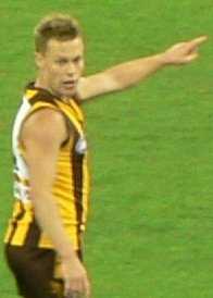 Sam Mitchel, playing for Hawthorn during the 2007 AFL Season